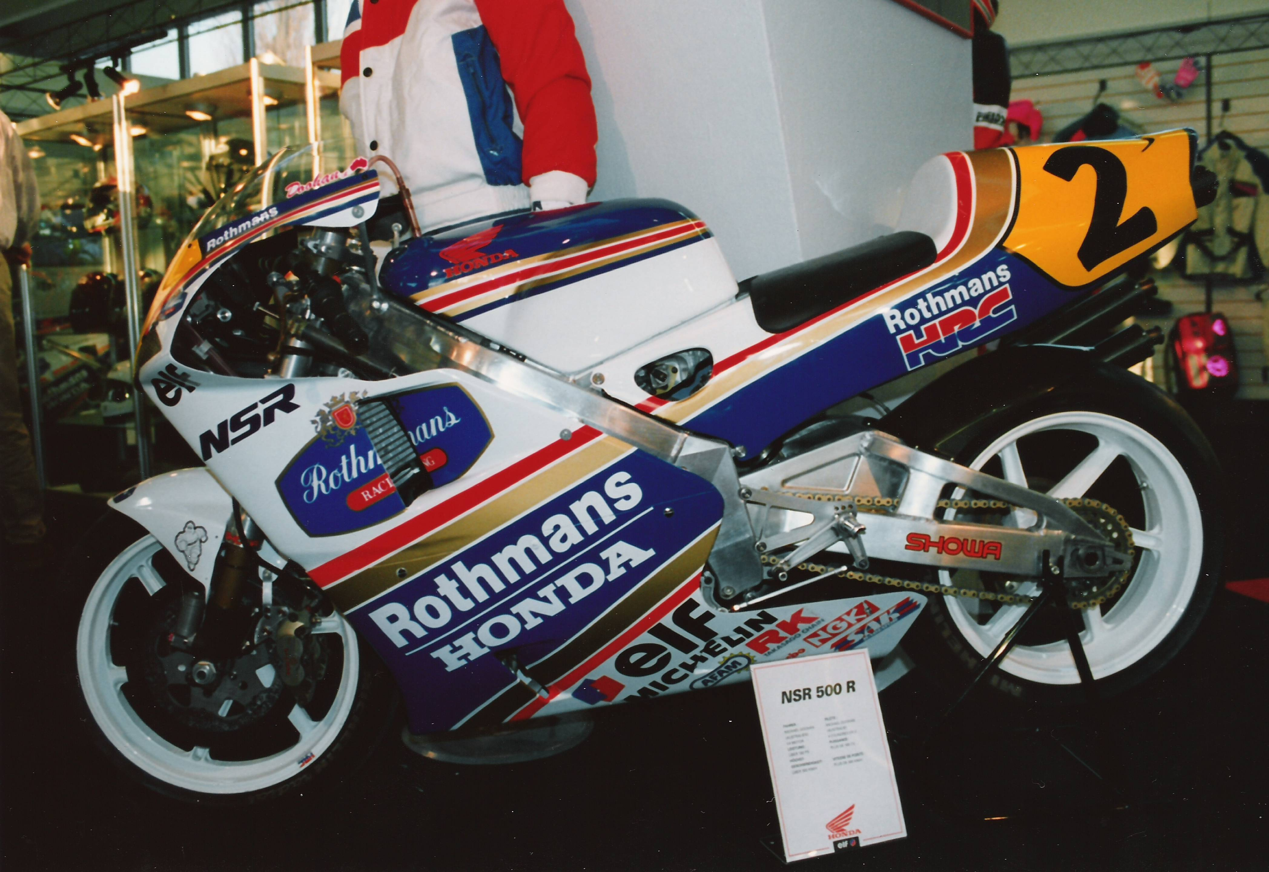 Mick Doohan's NSR500R